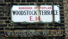 Street names, old and older Woodstock Road was renamed Woodstock Terrace in 1937 which suggests that the upper sign has been there for 80 years and the lower one a lot longer! At the junction with Poplar High Street.